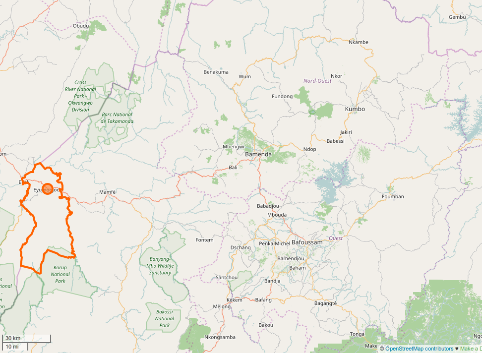 Eyumodjock in Cameroon ː city boundaries with OSM. This map may be incomplete, and may contain errors. Don't rely solely on it for navigation.